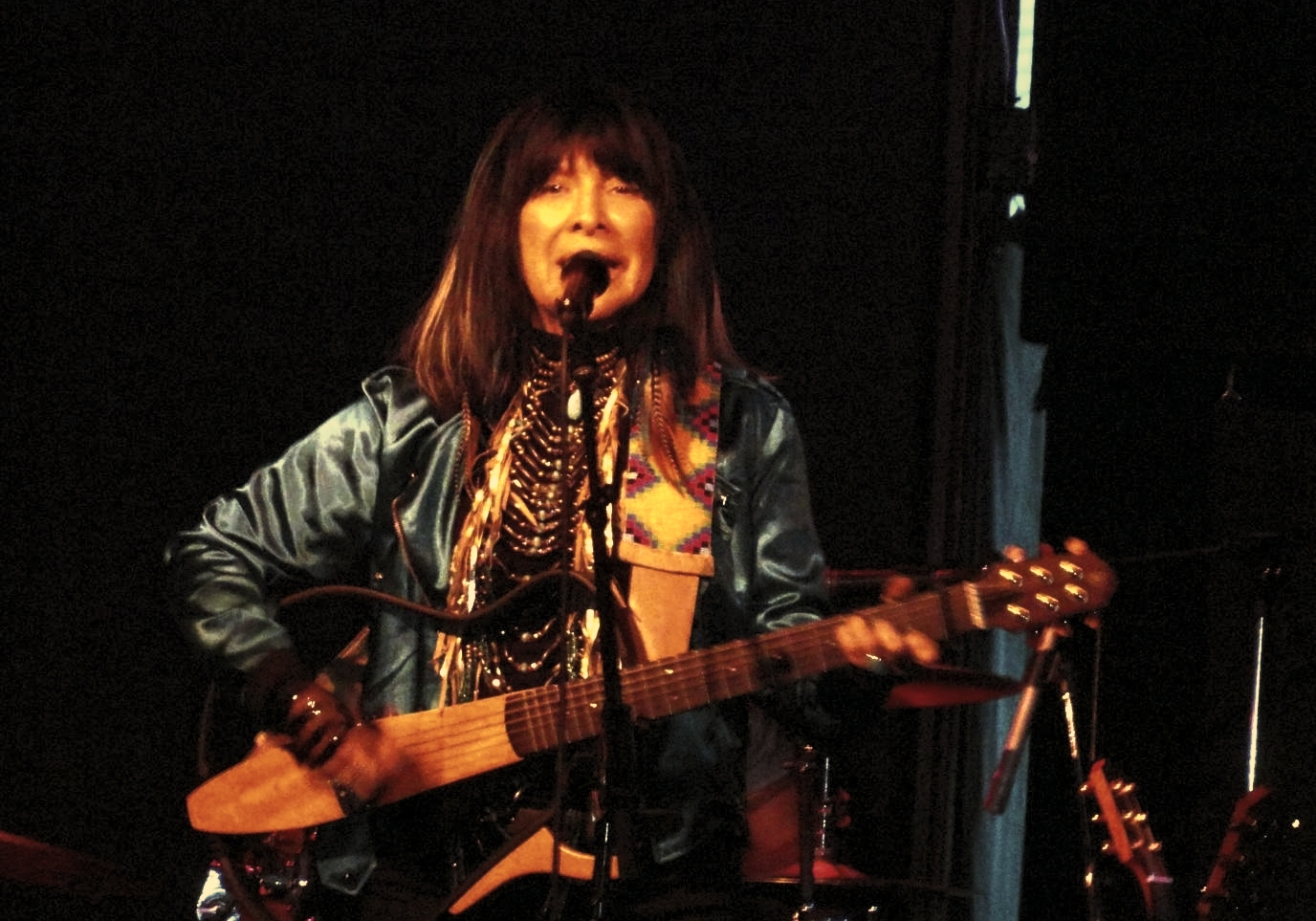 Buffy Sainte-Marie performed at The Iron Horse in Northampton, Mass. June 15, 2013. Known for her 1960s protest songs such as "Now That The Buffalo's Gone", "Custer Died For Your Sins", "The Universal Soldier"-and her Oscar winning song "Up Where We Belong"recorded by Joe Cocker and Jennifer Warnes; also "Until Its Time For You To Go" recorded by Elvis Presley.